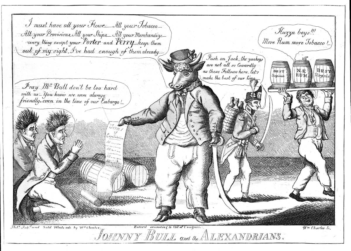 JOHNNY BULL and the ALEXANDRIANS (1814) By William Charles Engraving, Political cartoon. John Bull: "I must have all your Flour,_ All your Tobacco,_ All your Provisions,_ All your Ships,_ All your Merchandize,_ every thing except your Porter and Perry,_ keep them out of my sight, I've had enough of them already._" Kneeling American: "Pray Mr Bull don't be too hard with us._ You know we were always friendly, even in the time of our Embargo!_" British Soldier 1: "Push on Jack, the yankeys are not all so Cowardly as these Fellows here_ let's make the best of our time._" British Soldier 2 (Jack): "Huzza boys!!! More Rum more Tobacco!_" Bull is holding a long scroll titled Terms of Capitulation. David Porter and Oliver Perry were American heroes of the War of 1812. Jack is holding three kegs labeled BEST Virginia, N.E. RUM, and BEST Virginia, respectively. The title JOHNNY BULL and the ALEXANDRIANS is below the cartoon panel, along with printing information: Phda Pubd and Sold Whole sale by Wm Charles. Enter'd according to Act of Congress. Wm Charles Sc. Abbreviations are Philadelphia, published, William, and Sculptor.